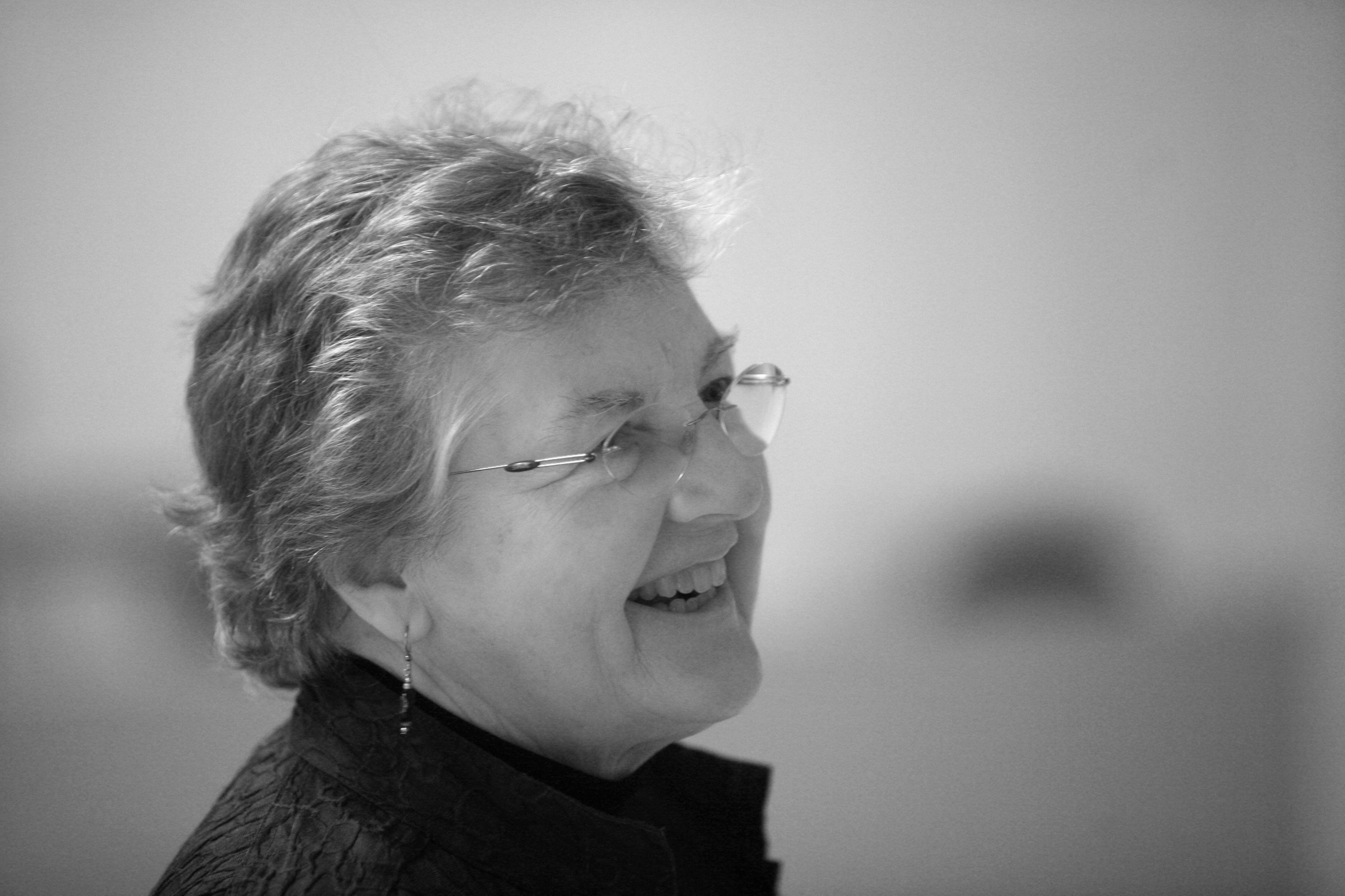 Frances E. Allen recieving the Erna Hamburger Distinguished Lecture Award at the EPFL